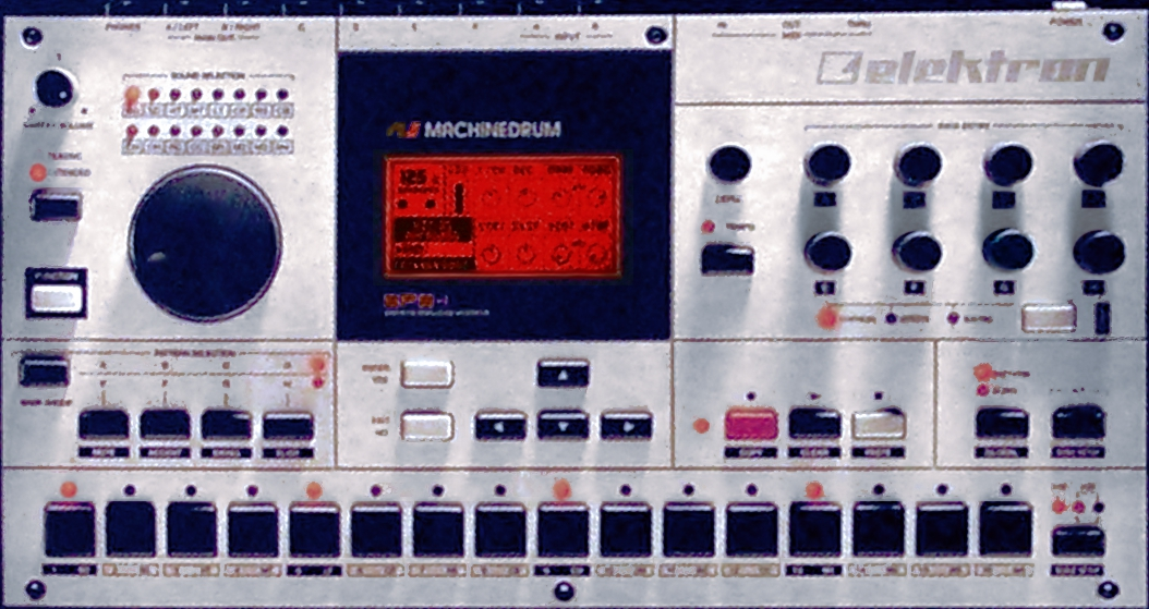 Elektron Machinedrum SPS-1 In the café section in JAM synthesizer & studio musicshop